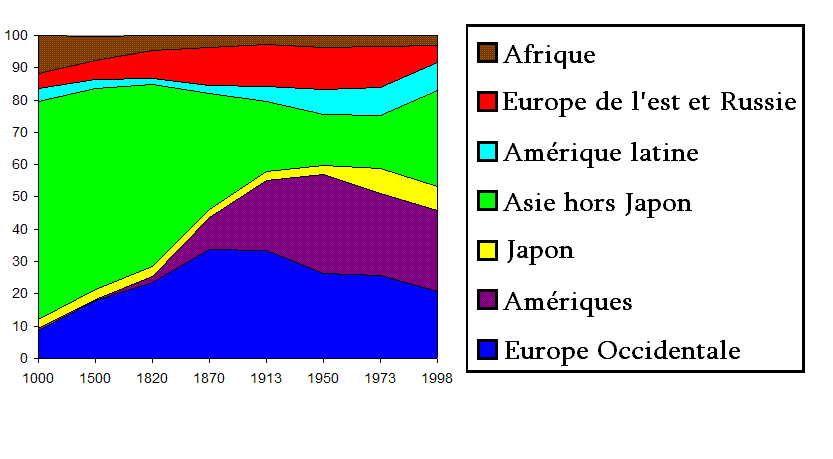 Changes in the distribution of the world GDP from 1000 to 2000.